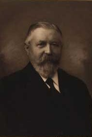 Peder Pedersen Pinstrup (1861-1934), Danish farmer and politician, MP